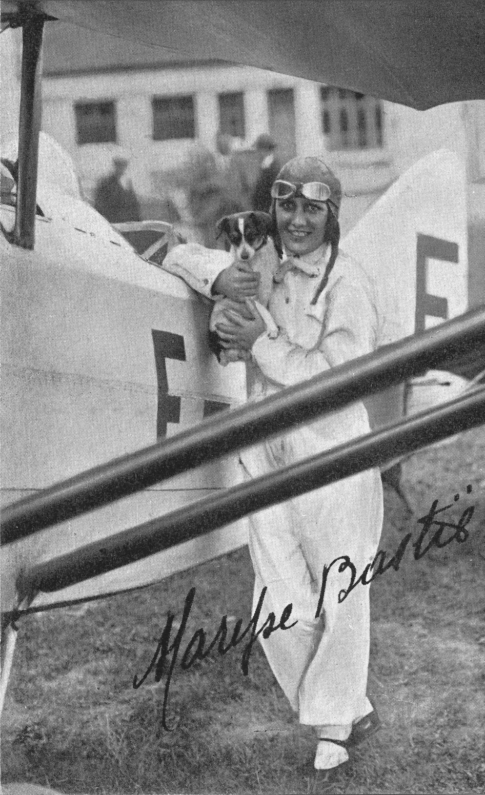 French woman pilot Maryse Bastié in her early years.